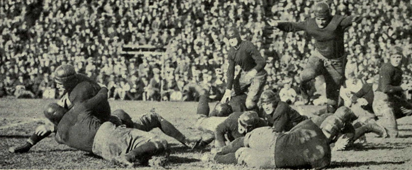 Photograph of a Michigan running play against Minnesota in 1925. Benny Friedman is on the ground at the left after being tackled with the ball. This work is in the public domain because it was published in the United States between 1923 and 1963 and although there may or may not have been a copyright notice, the copyright was not renewed. Unless its author has been dead for the required period, it is copyrighted in the countries or areas that do not apply the rule of the shorter term for US works, such as Canada (50 pma), Mainland China (50 pma, not Hong Kong or Macao), Germany (70 pma), Mexico (100 pma), Switzerland (70 pma), and other countries with individual treaties. See Commons:Hirtle chart for further explanation. This work is in the public domain in the United States because it was published in the United States between 1923 and 1977 without a copyright notice. See this page for further explanation. Note that it may still be copyrighted in jurisdictions that do not apply the rule of the shorter term for US works (depending on the date of the author's death), such as Canada (50 p.m.a.), Mainland China (50 p.m.a., not Hong Kong or Macao), Germany (70 p.m.a.), Mexico (100 p.m.a.), Switzerland (70 p.m.a.), and other countries with individual treaties.